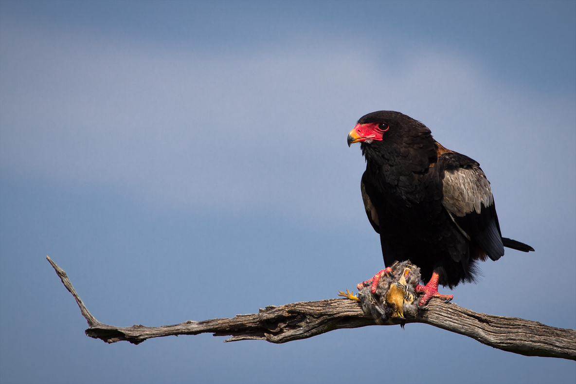 At Maasai Mara National Reserve with a Coqui Francolin kill